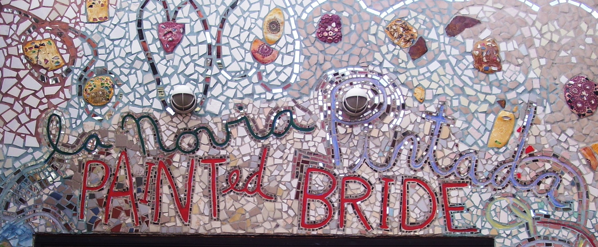 The Painted Bride Art Center at 230 Vine Street between 2nd and 3rd Streets in the Old City neighorhood of Philadelphia, Pennsylvania was founded in 1969 as an artist-centered performance space and gallery particularly oriented to presenting the work of local artists. It presents dance, jazz, world music, visual arts, theatre and performance art. The outside of the building the Bride is located in is completely covered by Skin of the Bride, a mosaic by Philadelphia artist Isaiah Zagar, which he created between 1991 and 2000 and donated to the center. (Sources: "History and Mission" on the Painted Bride Art Center website and plaque located on the northeast corner of the front of the building) This image shows a detail over the main entrance to the bulding on Vine Street, on the building's west end.